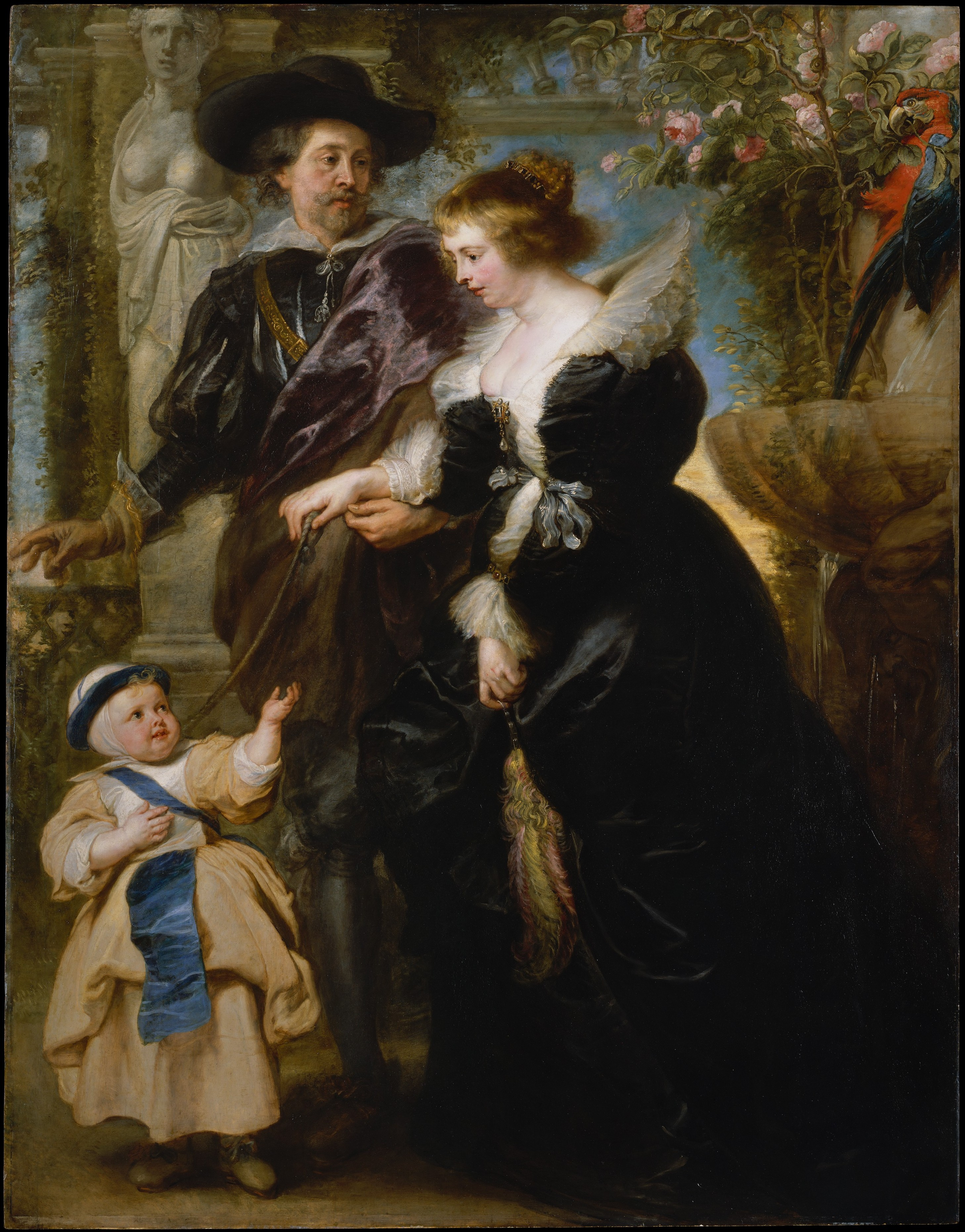 This magnificent portrait of Rubens, his second wife, Helena Fourment, and one of their five children has usually been dated on stylistic grounds to the late 1630s. The child's blue sash, heavy shoes, and plain collar resemble adult male attire and suggest that he is either Frans Rubens, born in 1633, or, more likely, Peter Paul, born March 1, 1637.